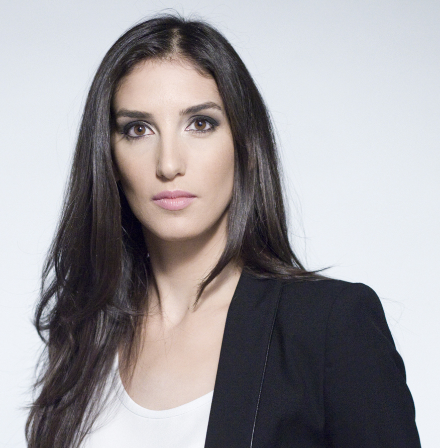 Channel 10 News (Israel) Journalist